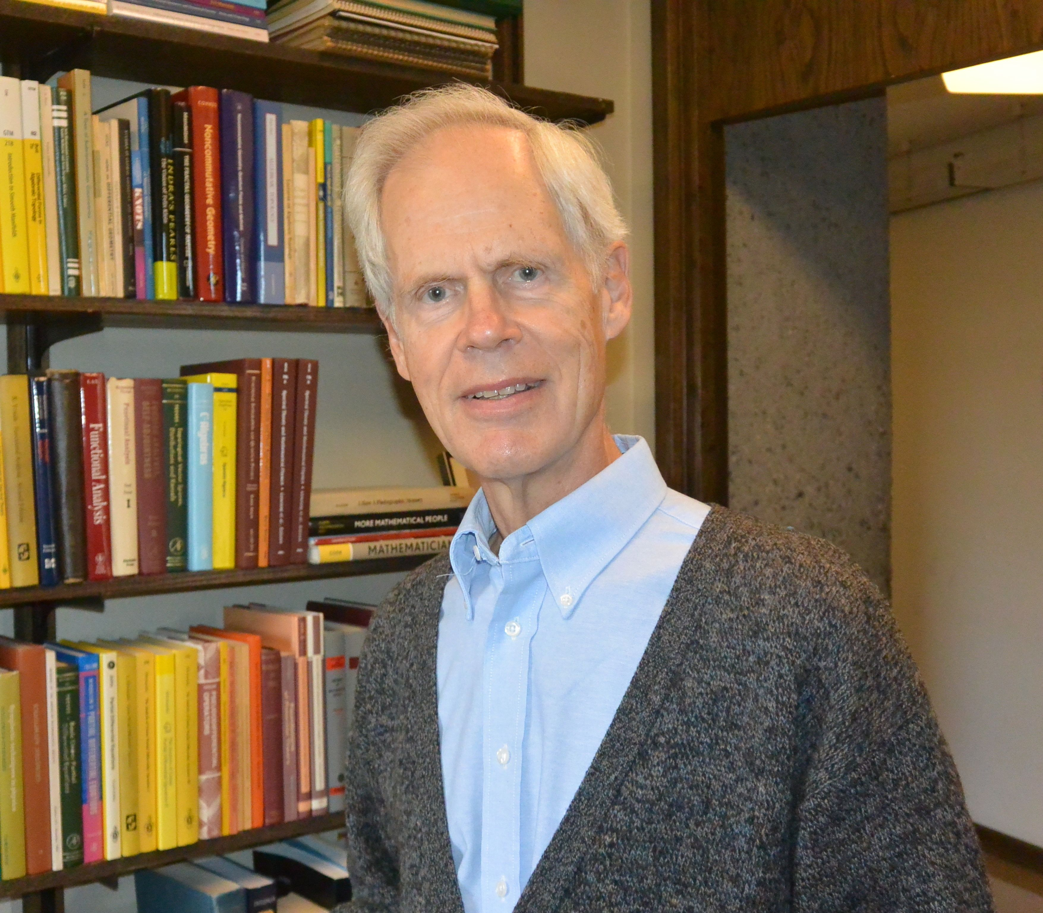 Photo of Gerald B. Folland